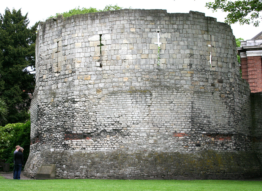 The Multangular Tower, York, England Roman/medieval, part of the York city walls.